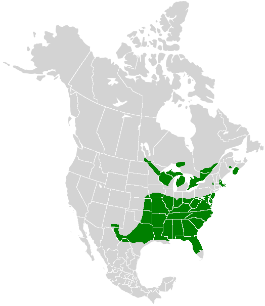 A range map showing the distribution of the Henry's Elfin (Callophrys henrici)